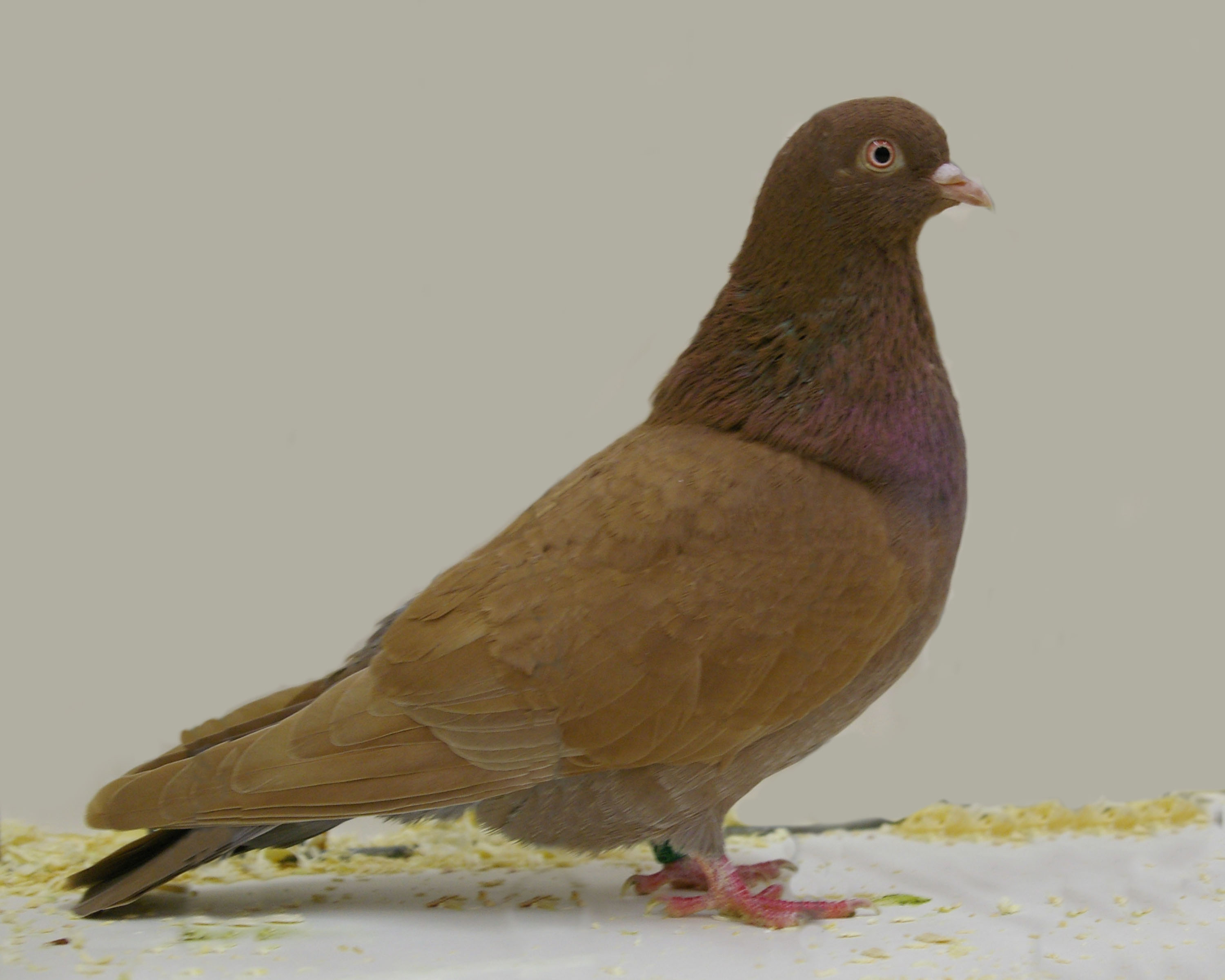 Birmingham Roller (Red Self) scottish flying breeds show, stirling. 10th. nov. '07